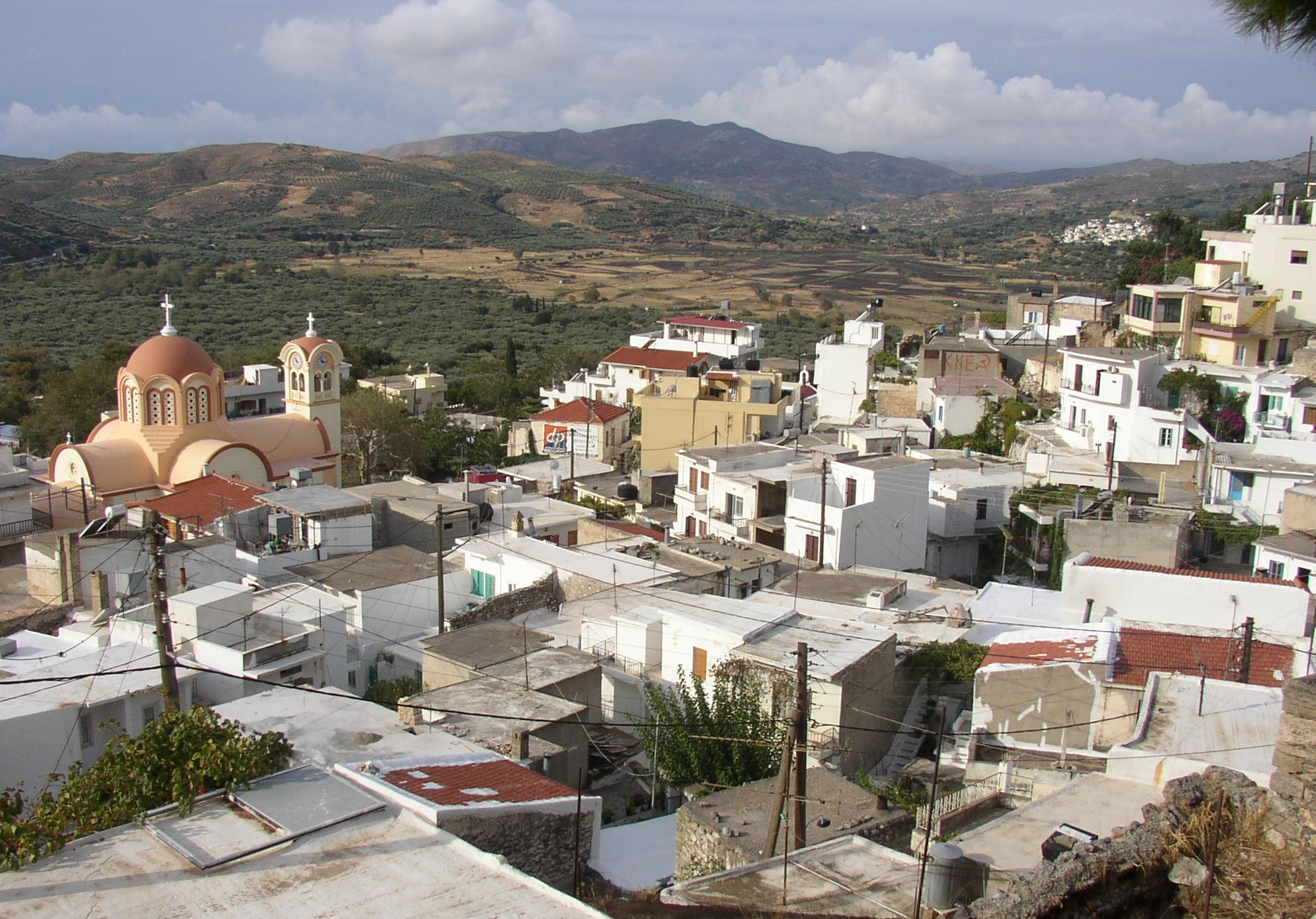 Ano Viannos, Crete, Greece